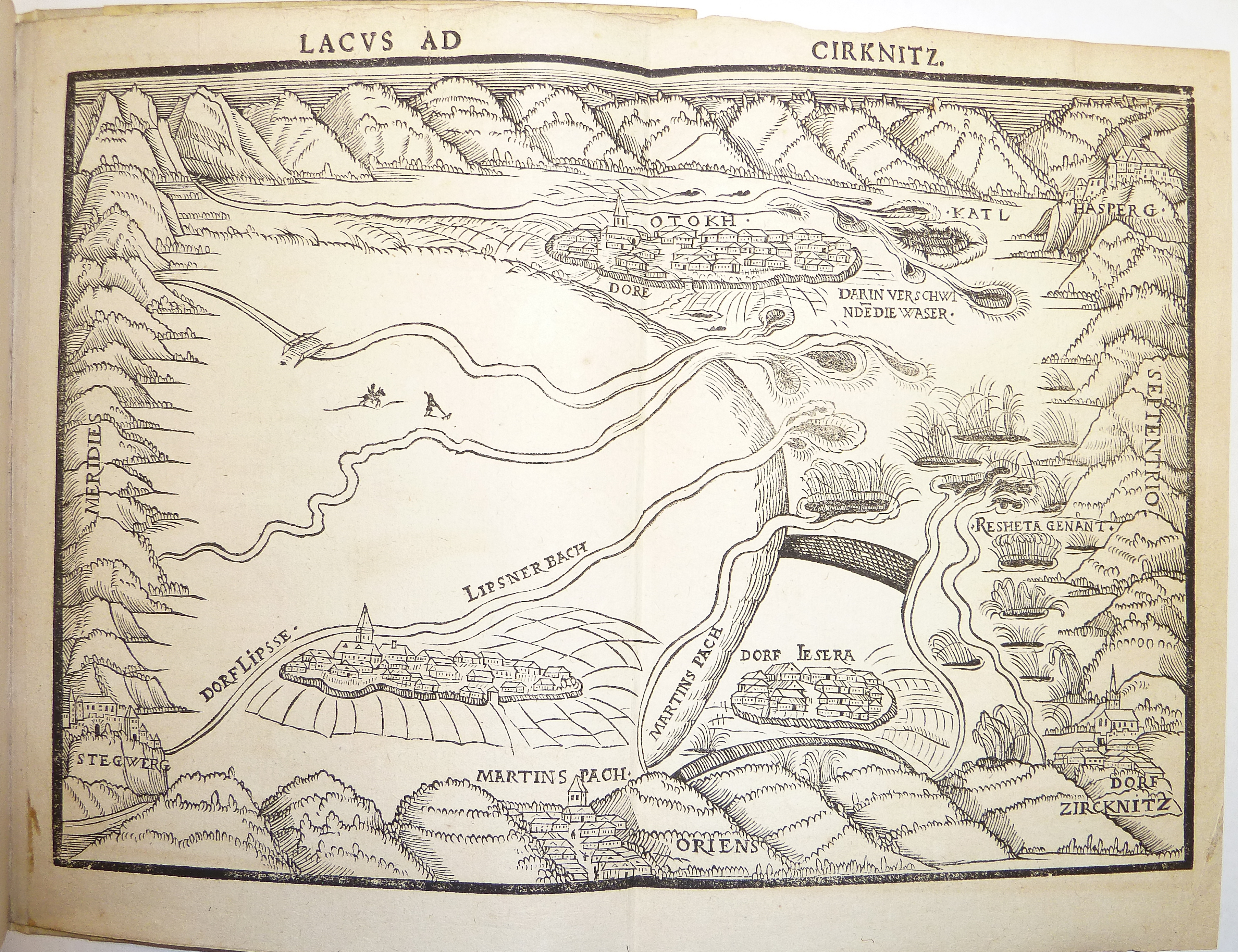 Folded woodcut map of Cerknisko Lake and environs, inserted into this work from the 1551 edition by Aquila of this work; cf. the reproduction in P. Simoniti, "The 1551 Herbenstein-Wernher Description of Lake Cerknica," Acta Carsologica 39.1 (2010), p. 150. Simoniti also contends that it is "highly likely that the motif for the woodcut of Lake Cerknica had been drawn by the famous Nürnberg painter, graphic artist and cartographer, Augustin Hirschvogel (1503-1553)" (p. 157). Penn's copy of De admirandis Hungariae aquis hypomnemation (1551), bought as part of the same transaction as this work (Chorographia Transylvaniae), wants the plate. Rudolf Hirsch conjectures that both of these works were disbound from a Sammelband owned by Sigismund von Herberstein, the dedicatee of De admirandis Hungariae aquis hypomnemation (cf. "Georg Wernher and Sigismund von Herberstein," Gutenberg Jahrbuch (1963), p. 121). Established form: Hirschvogel, Augustin, ‡d 1503-1553 Established form: Aquila, Aegidius, ‡d 1496-1552 Established form: Herberstein, Sigmund, ǂc Freiherr von, ǂd 1486-1566 Penn Libraries call number: GC5 R2714 550c All images from this book